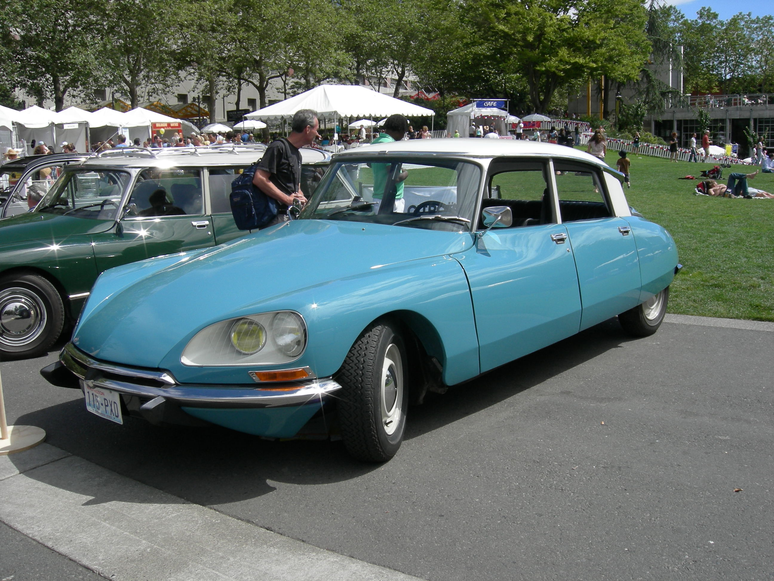 1974 Citroën DS at the Bastille Day celebration that is part of the Festál series of festivals at Seattle Center, Seattle, Washington.